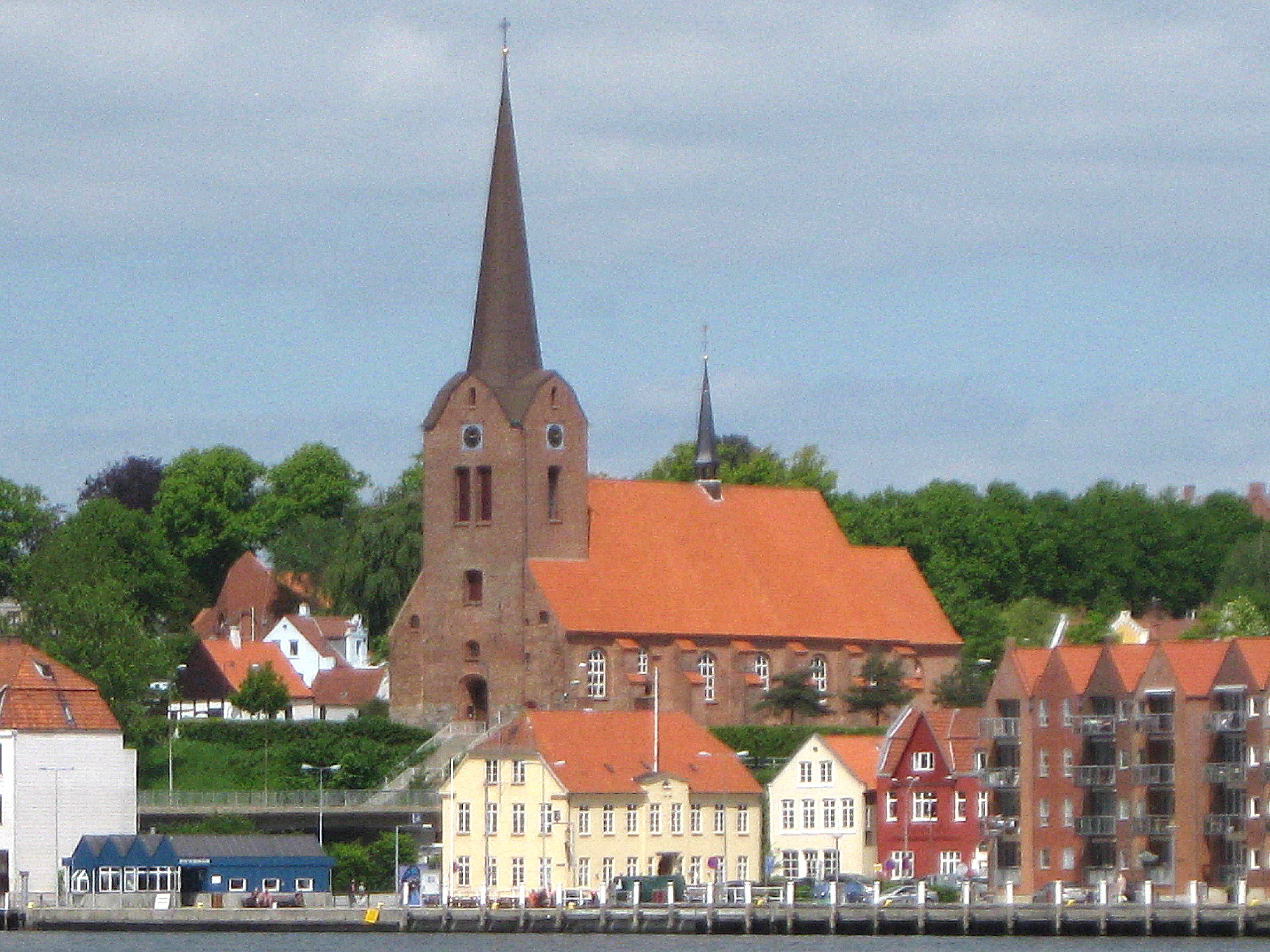 The church "Skt. Marie Kirke" in the town "Sønderborg". The town is located partly on the island of Als, partly in Southern Jutland, Denmark.